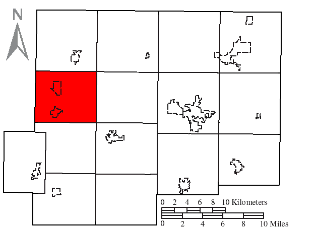 Made by the US Census and modified by myself